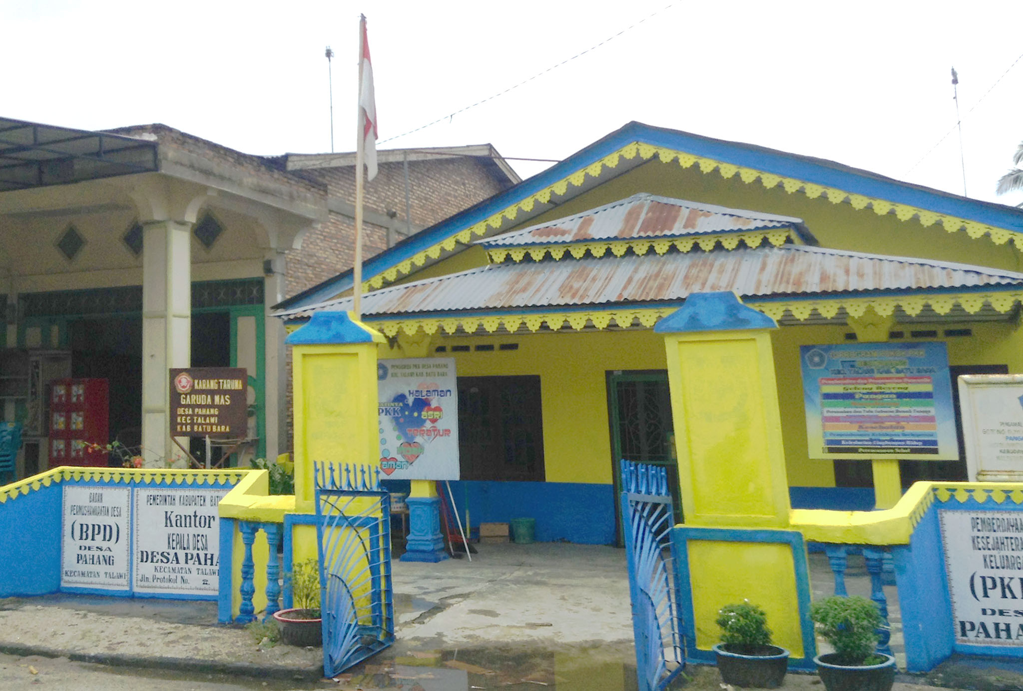 Office of Pahang, Talawi, Batu Bara